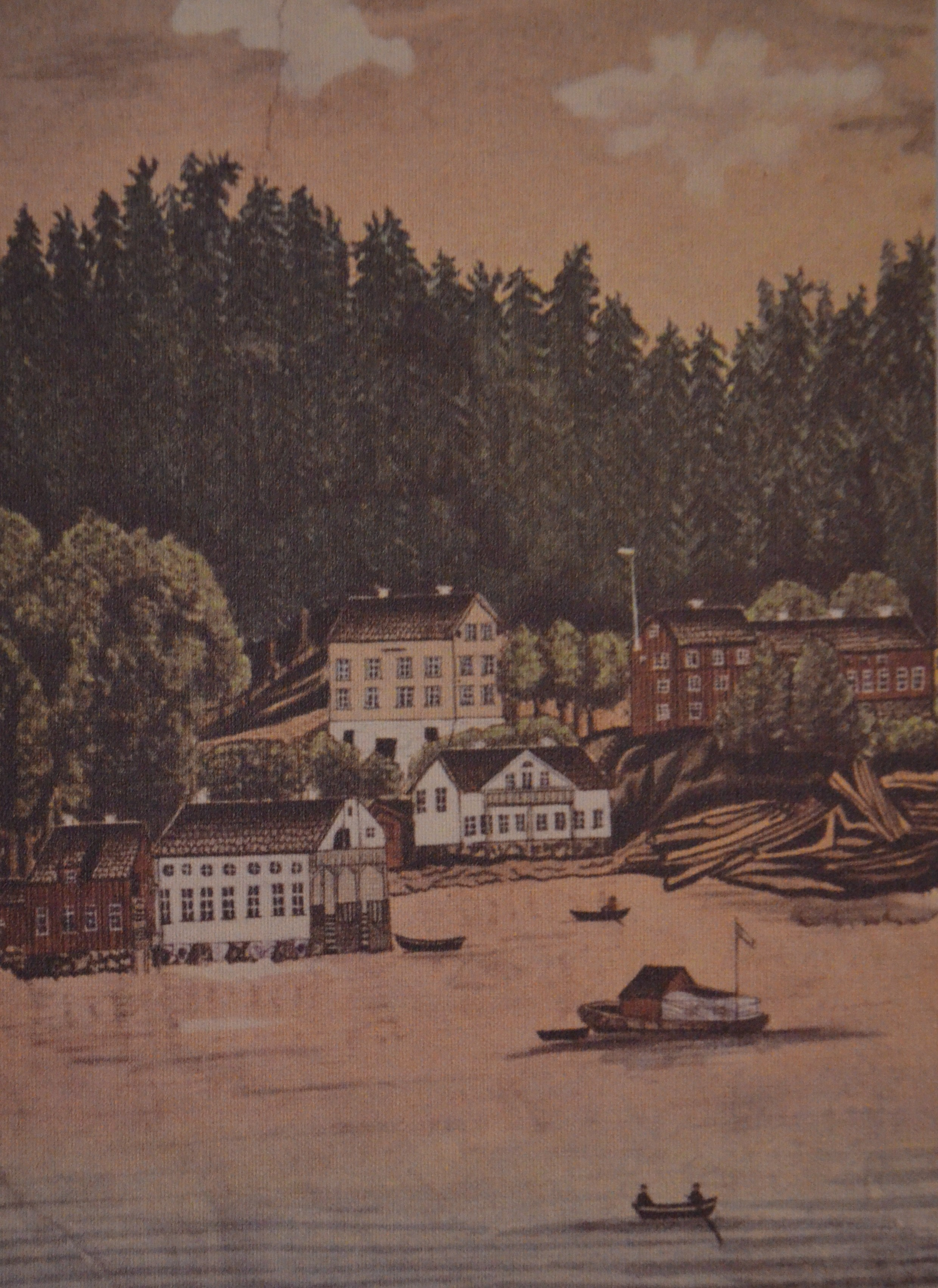 Detail of painting of Gustafsberg, Uddevalla, Sweden, 1841